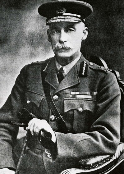 General Percy Lake, first president of The Royal Canadian Legion